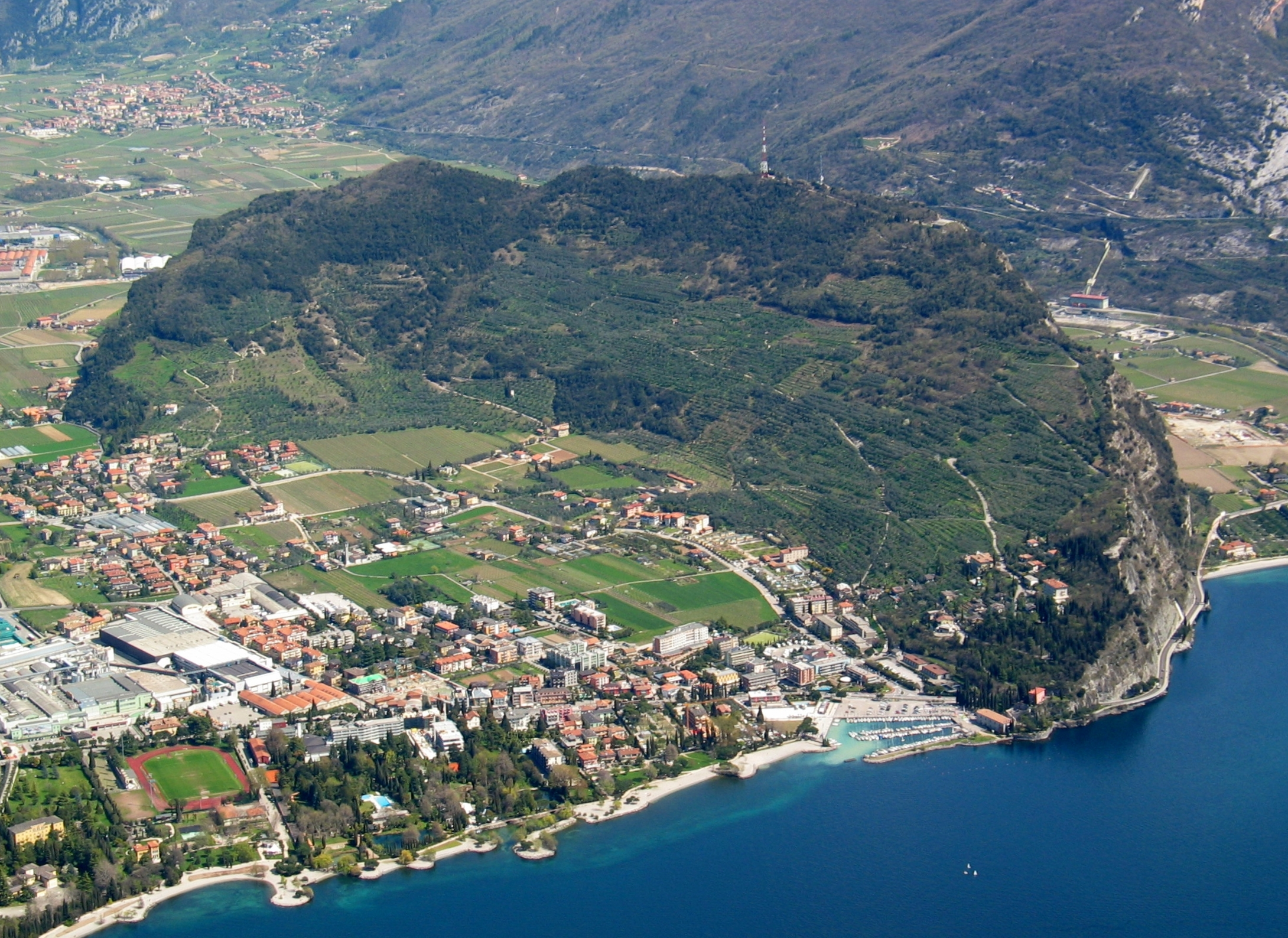 Monte Brione, view from southwest